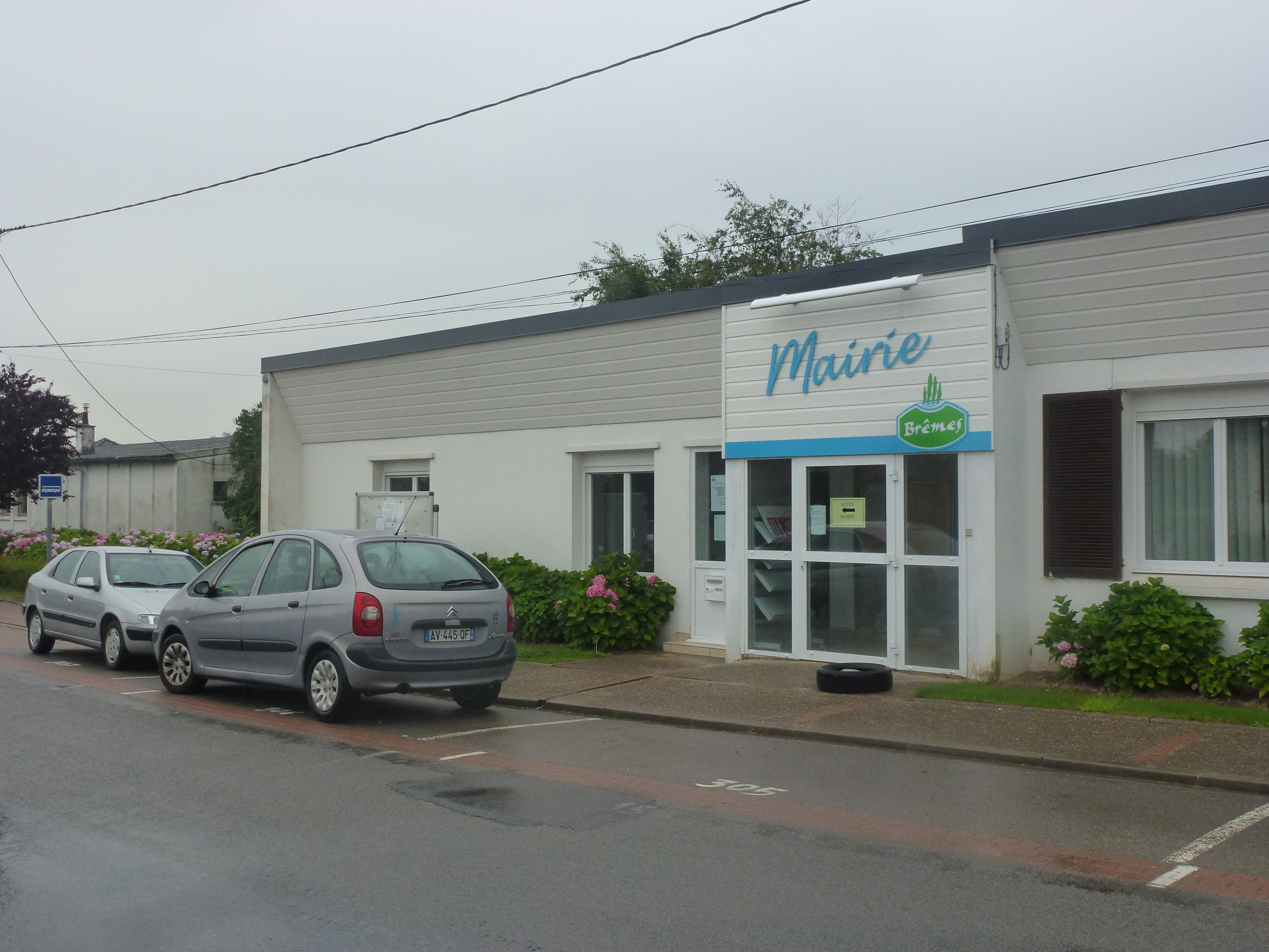 Brêmes (Pas-de-Calais) mairie